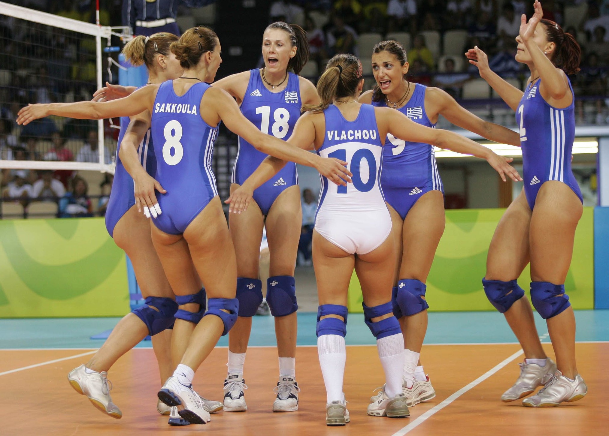 Greek women's indoor volleyball team in bikini uniform 1